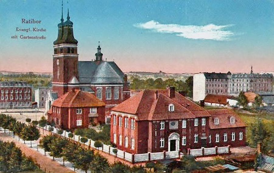 Raciborz - Evangelical Church at Wileńska street